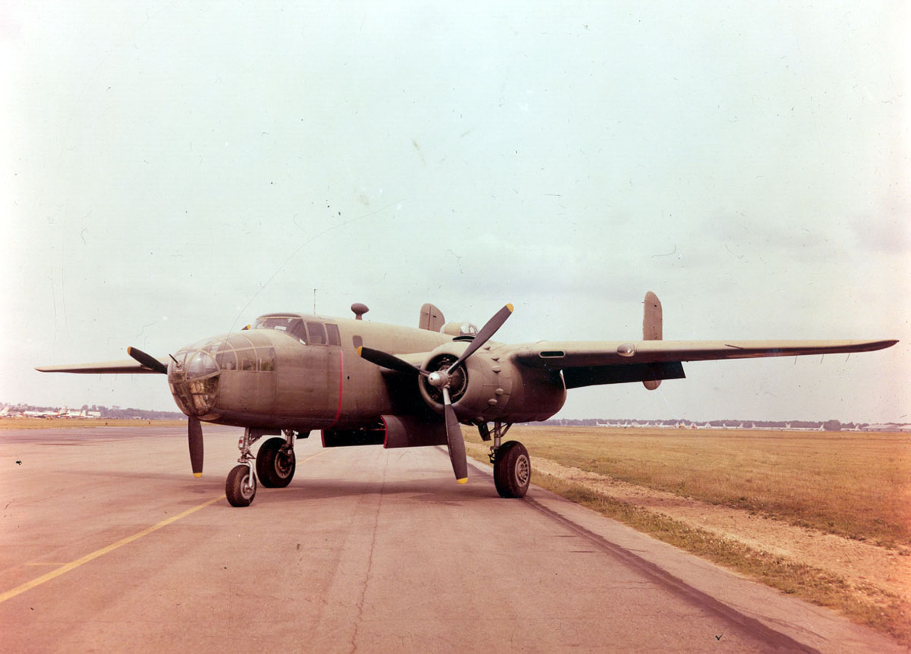 A U.S. Army Air Force North American B-25B Mitchell at the National Museum of the United States Air Force.